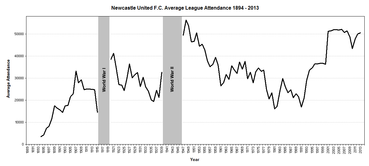 Average attendances of Newcastle United. Newcastle finished as the Football League's best supported club on ten occasions. NUFC were the first club in the world to attract over 1 million for league games (1946-47) and average over 50,000 for league games (1947-48; Newcastle 56,283; Arsenal 54,982; Man Utd 54,890). St James' Park had undergone several changes to capacity since opening in 1892.